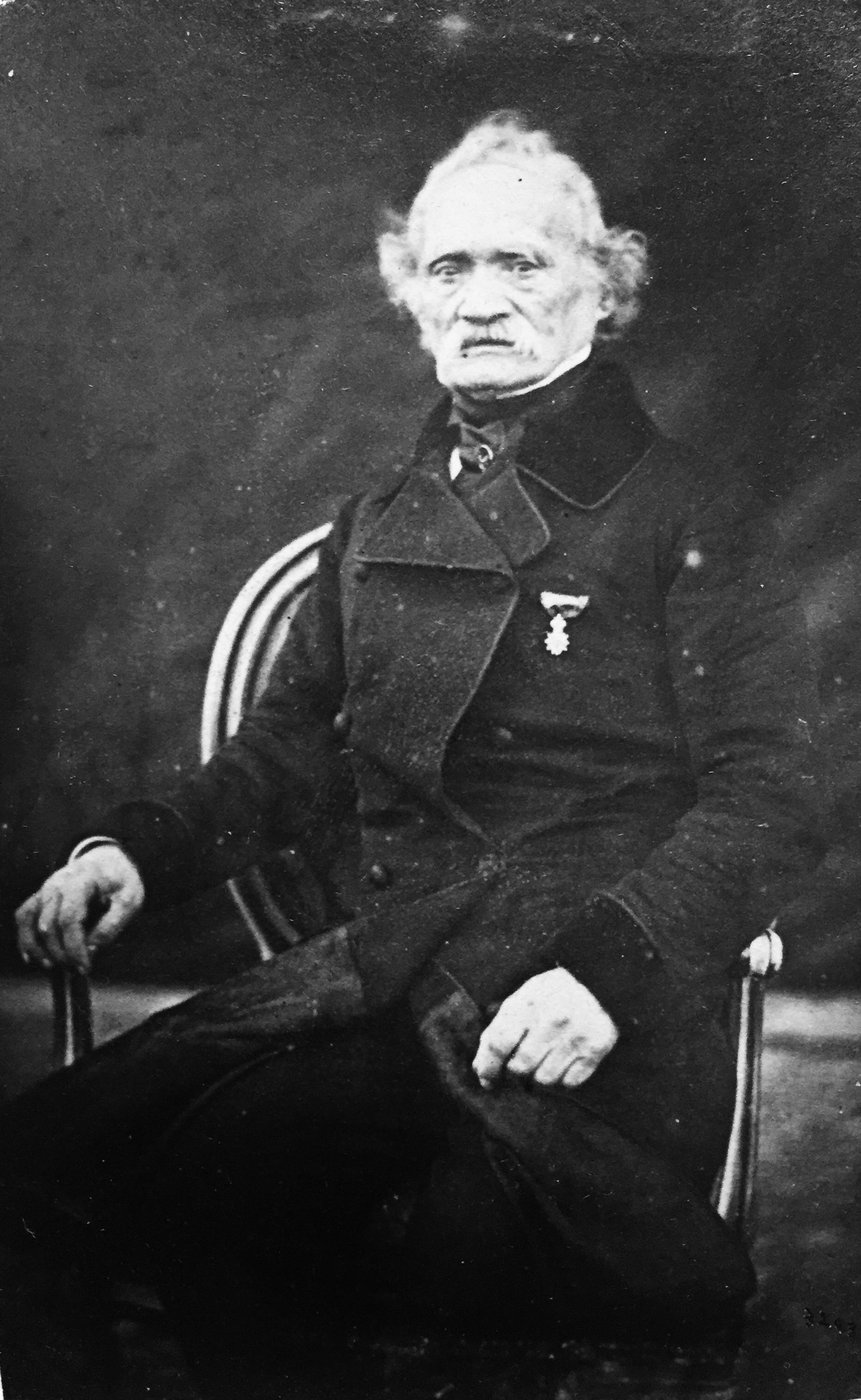 General Maggiore, Cavaliere dell'Ordine di San Maurizio e Lazzaro, patriota.